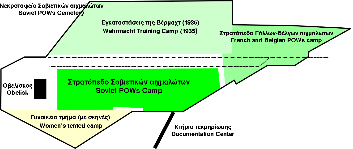 Bergen-Belsen Camp Drawing